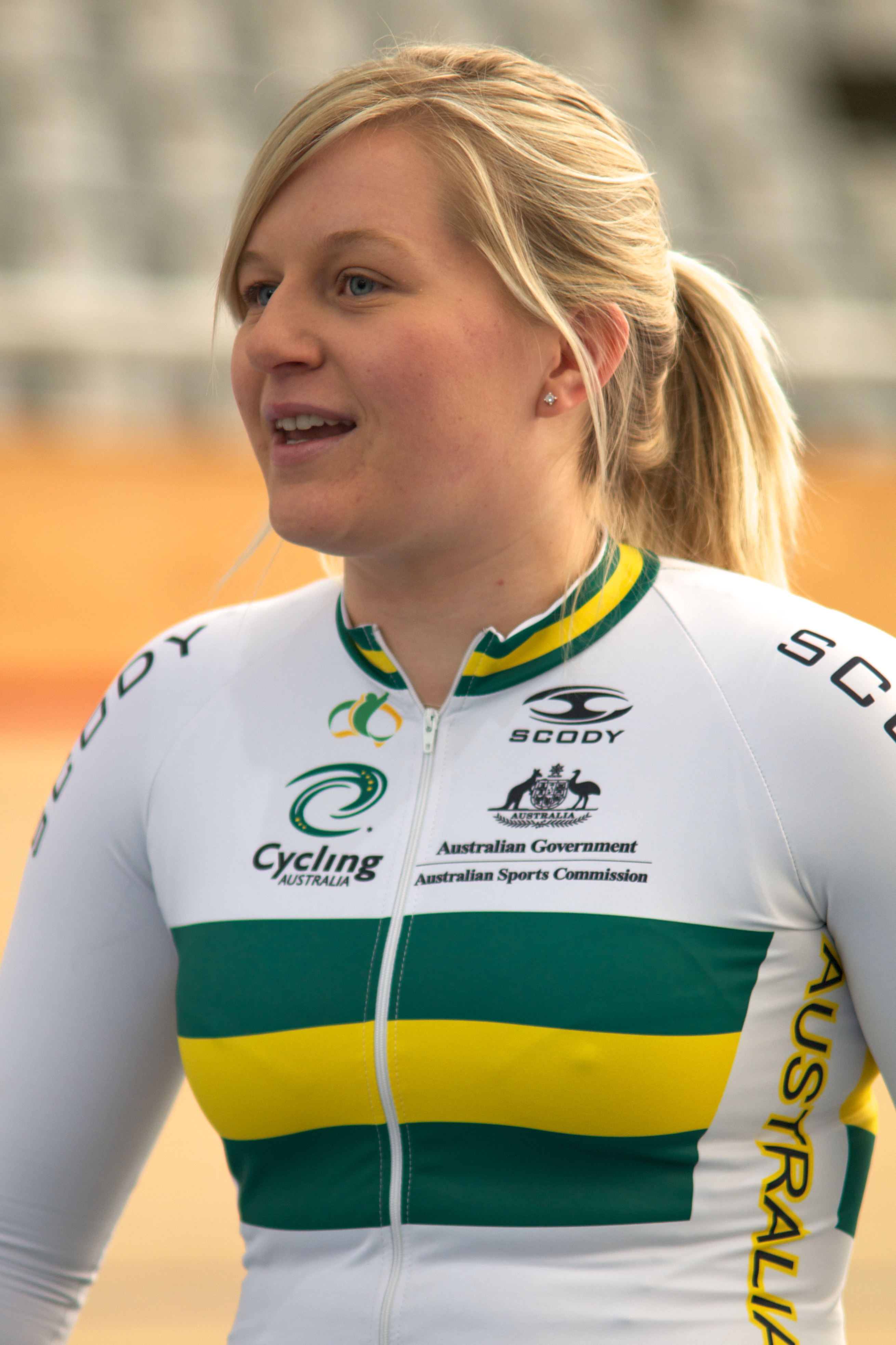 Stephanie Morton at the announcement of the 2012 Australian Paralympic cycling team.